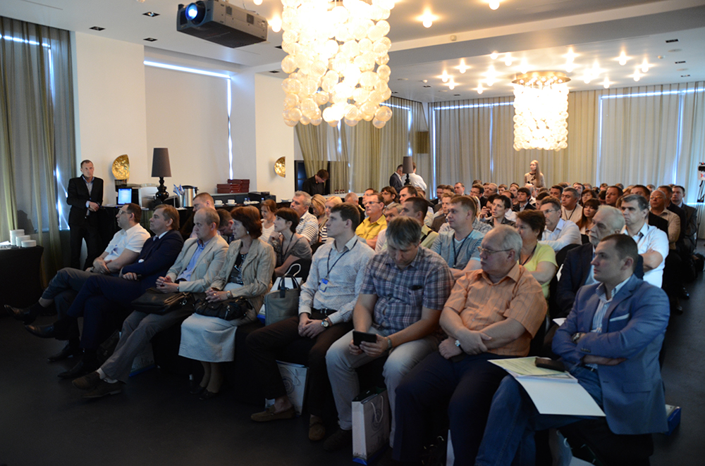 Семинар РСИ 5